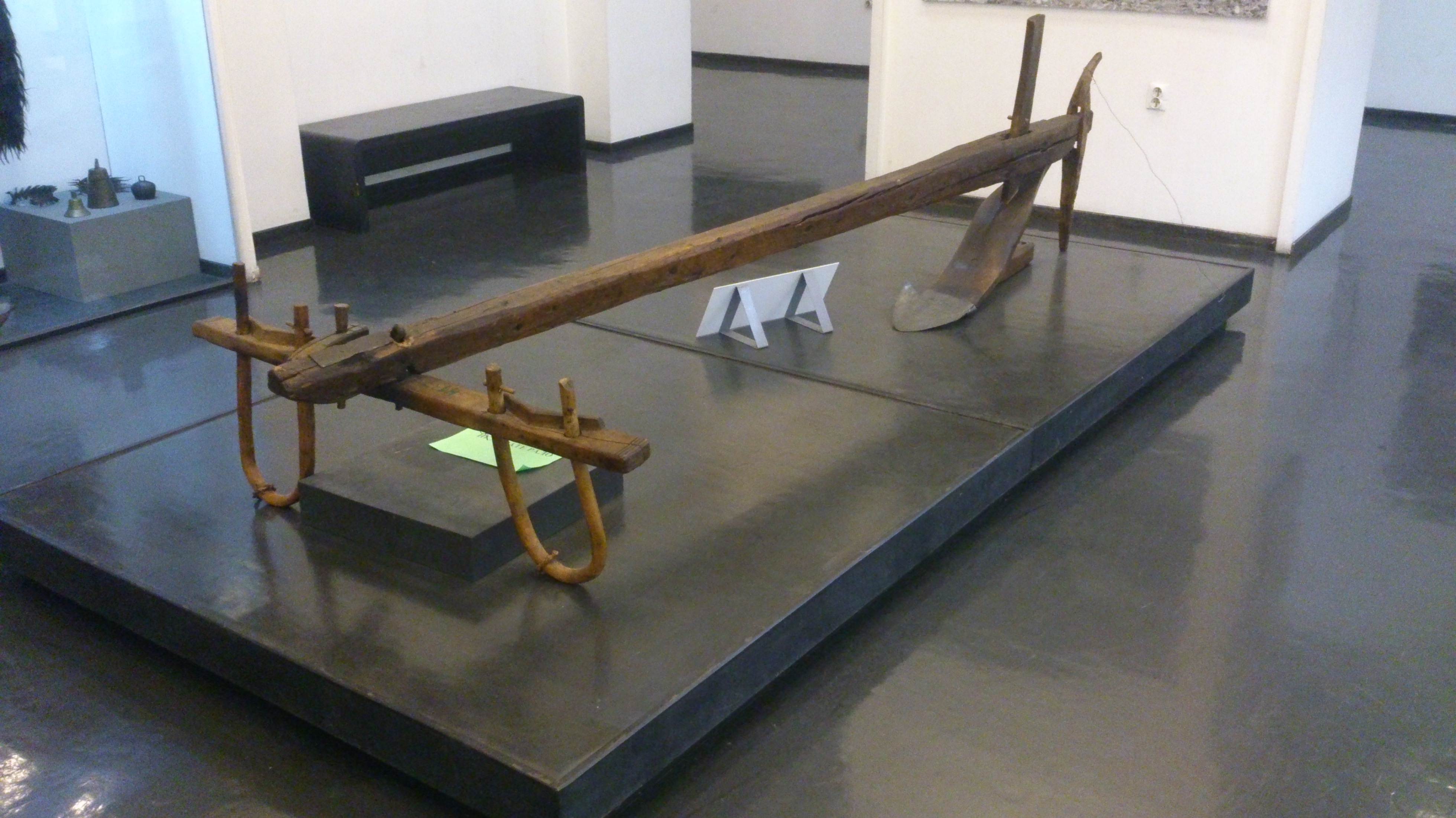 Etnografski muzej Beograd Srpski (latinica): Etnografski muzej u Beogradu